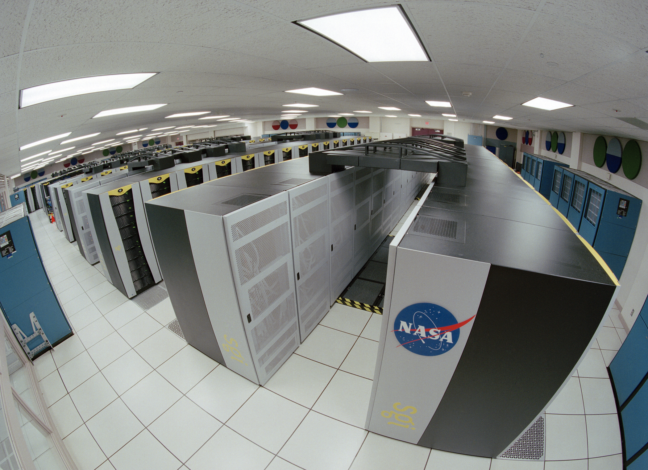 The Columbia Supercomputer at its largest capacity at NASA's Advanced Supercomputing Facility located at NASA Ames Research Center, Moffett Field, California